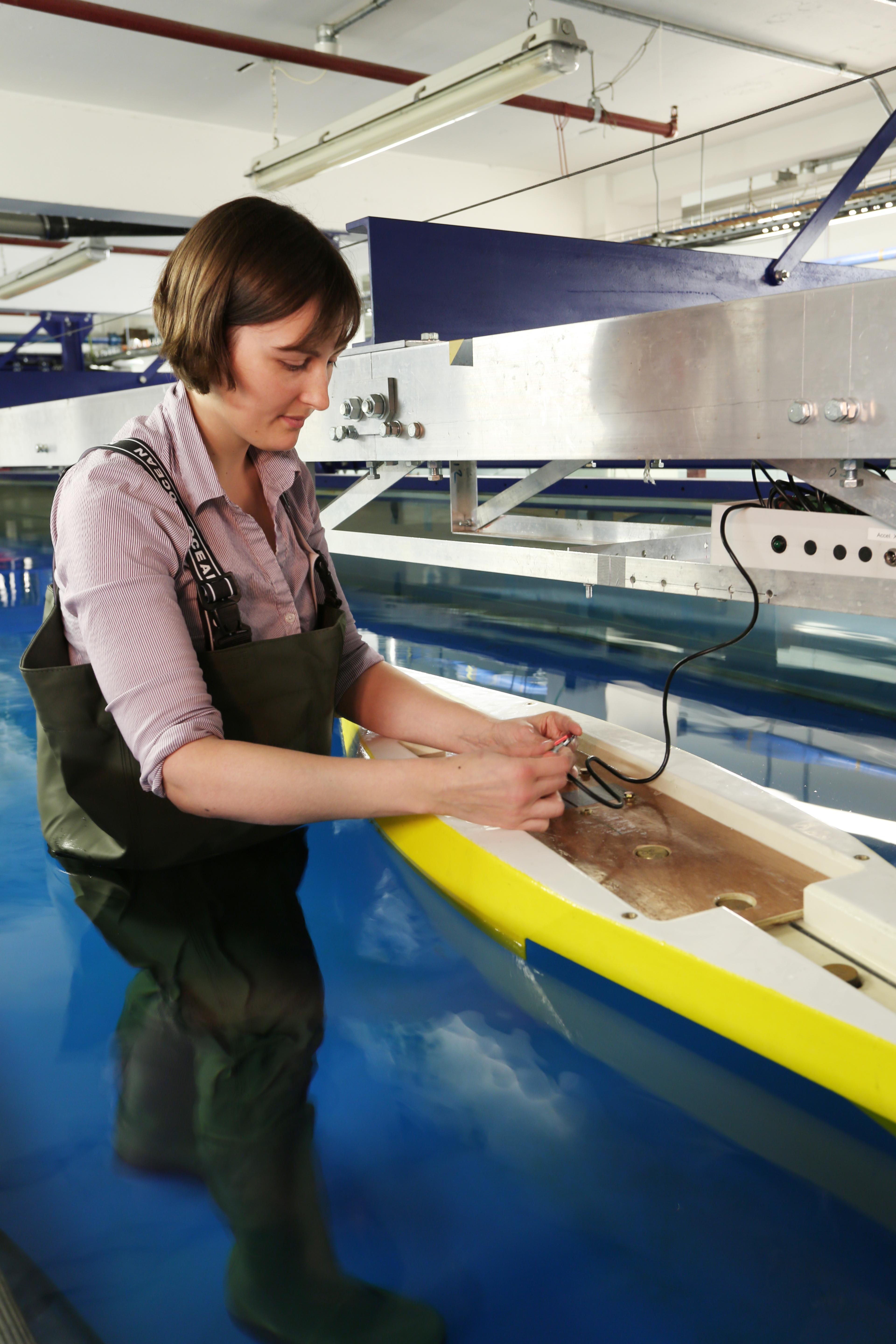 I'm a Naval Architect (design ships, submarines and anything related to marine environment). Here I am in the UCL Towing Tank setting up a model ship for testing in waves.